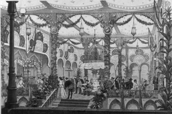 Carnival event in the Casino Theatre in Copenhagen, Denmark